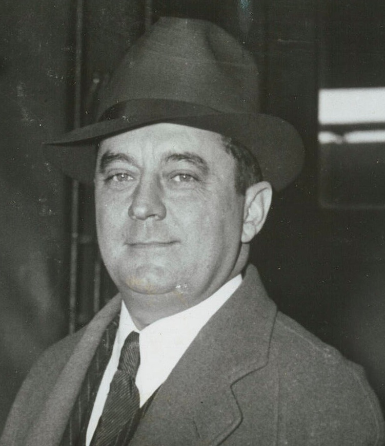 Joseph A. Gavagan, Congressman from New York